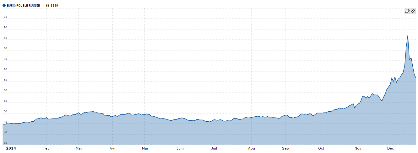 Euro vs Rouble . December 2013 to 23 December 2014